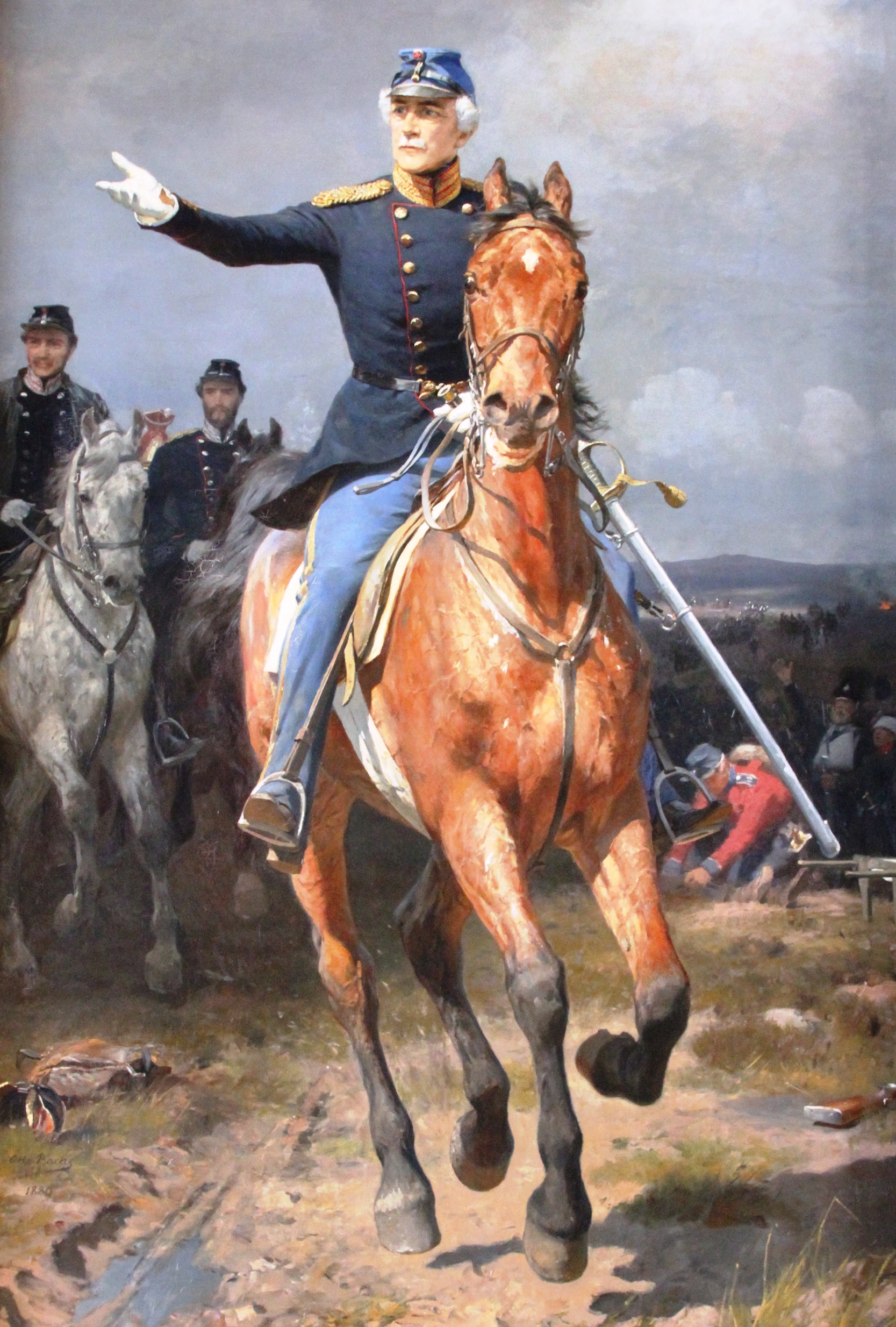 Painting by the artist Otto Bache, in Fredriksborg Castle museum exhitibtion, Sjælland - denmark.